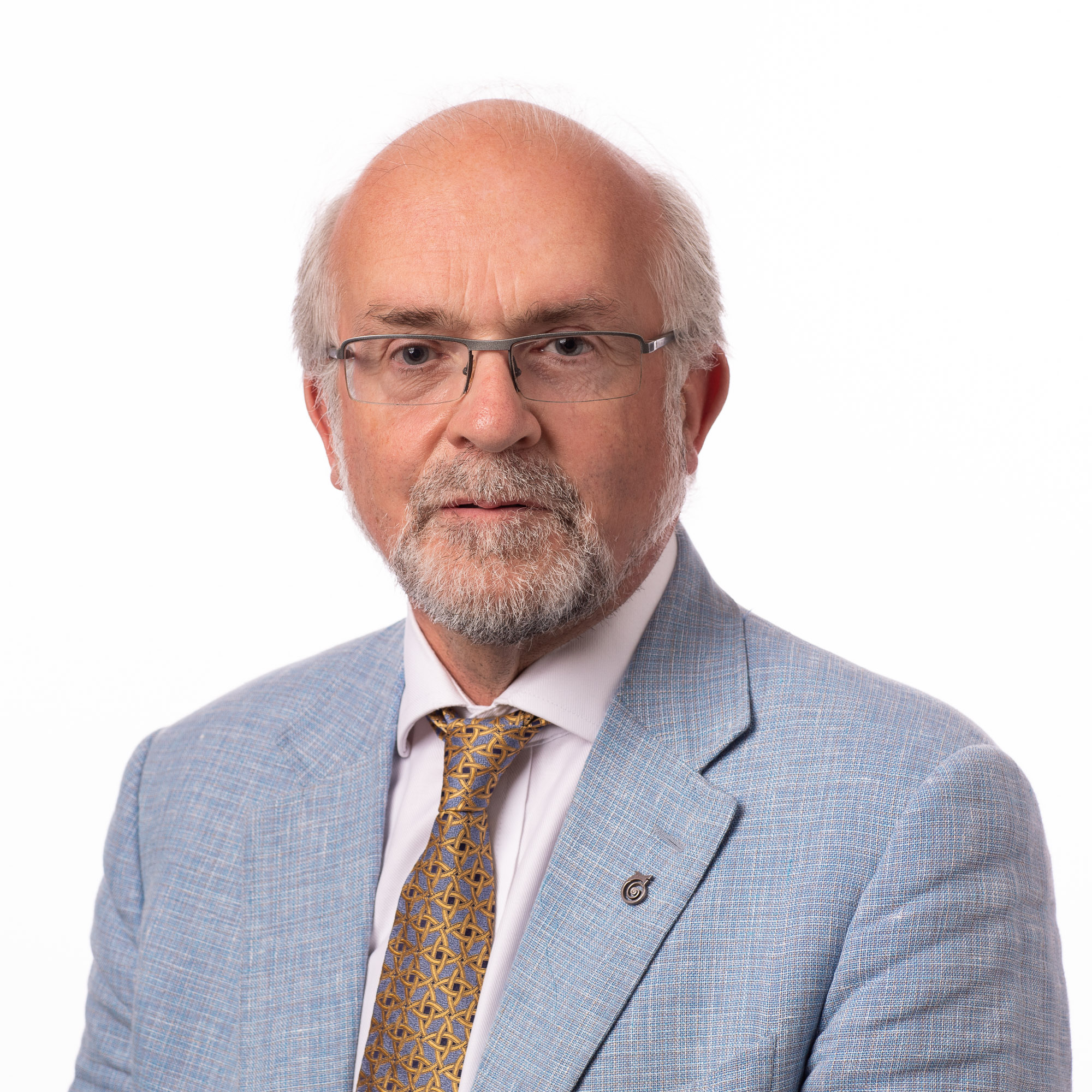 by City Headshots Dublin